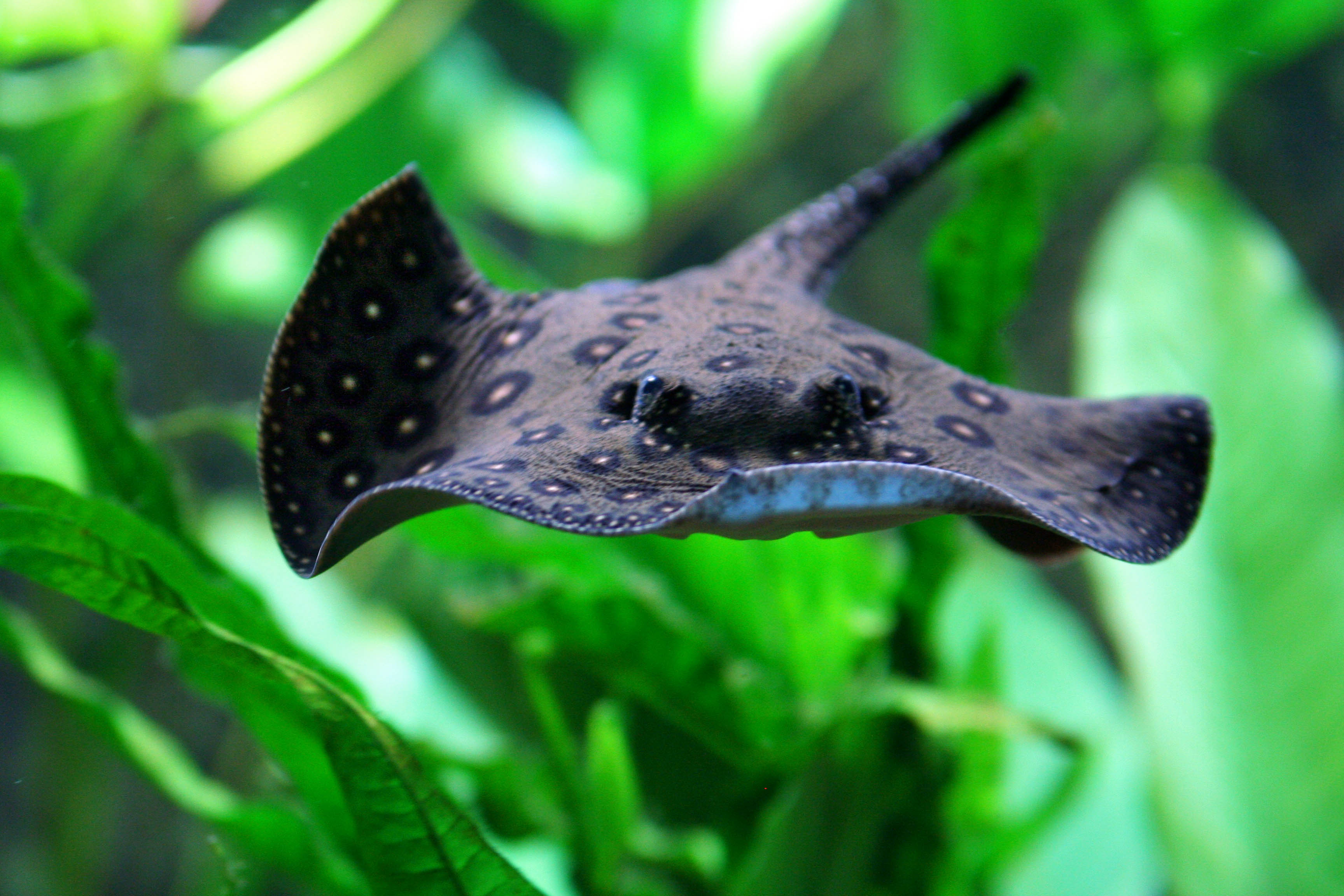 Ocellate river stingray (Potamotrygon motoro) at the New England Aquarium